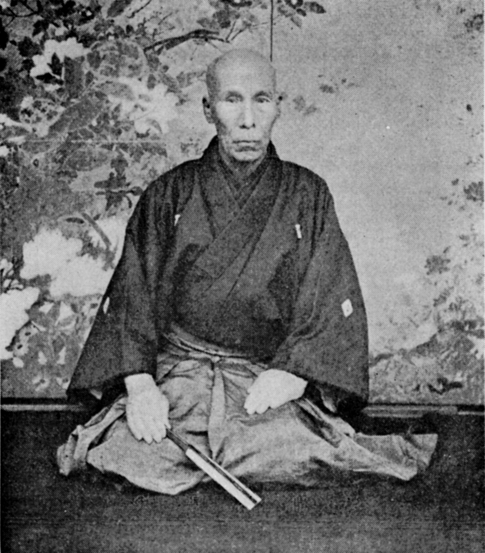 SAKURAMA Banma(1835 - 1917)